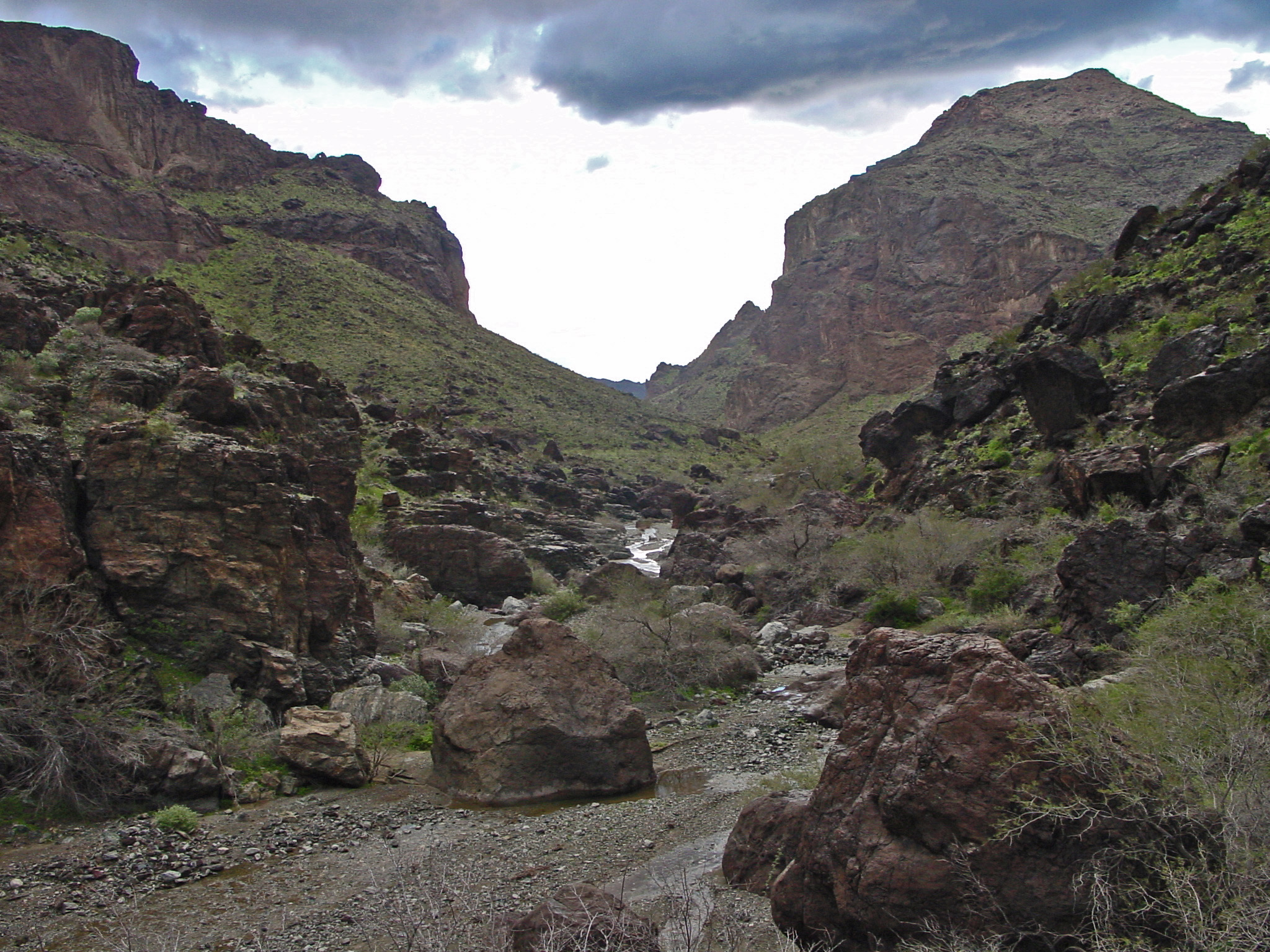 Looking southwest along Whipple Wash in the Whipple Mountains, at the ecotone of the northeastern Colorado Desert and southeastern Mojave Desert. In the central Lower Colorado River Valley, of eastern San Bernadino County, southern California. "The range is moister and greener in this image than most any other recorded time since Euro-American settlement of the region." This image was taken by Ethan O'Connor in January of 2005.